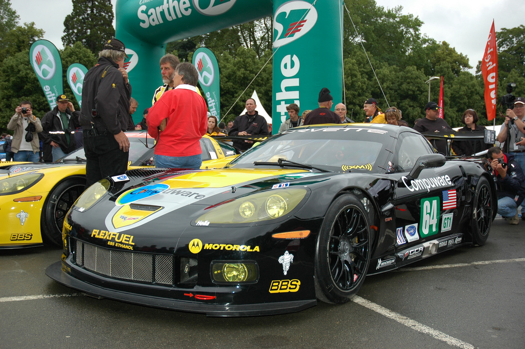 Corvette Racing's Chevrolet Corvette C6.R at scrutineering for the 2009 24 Hours of Le Mans.